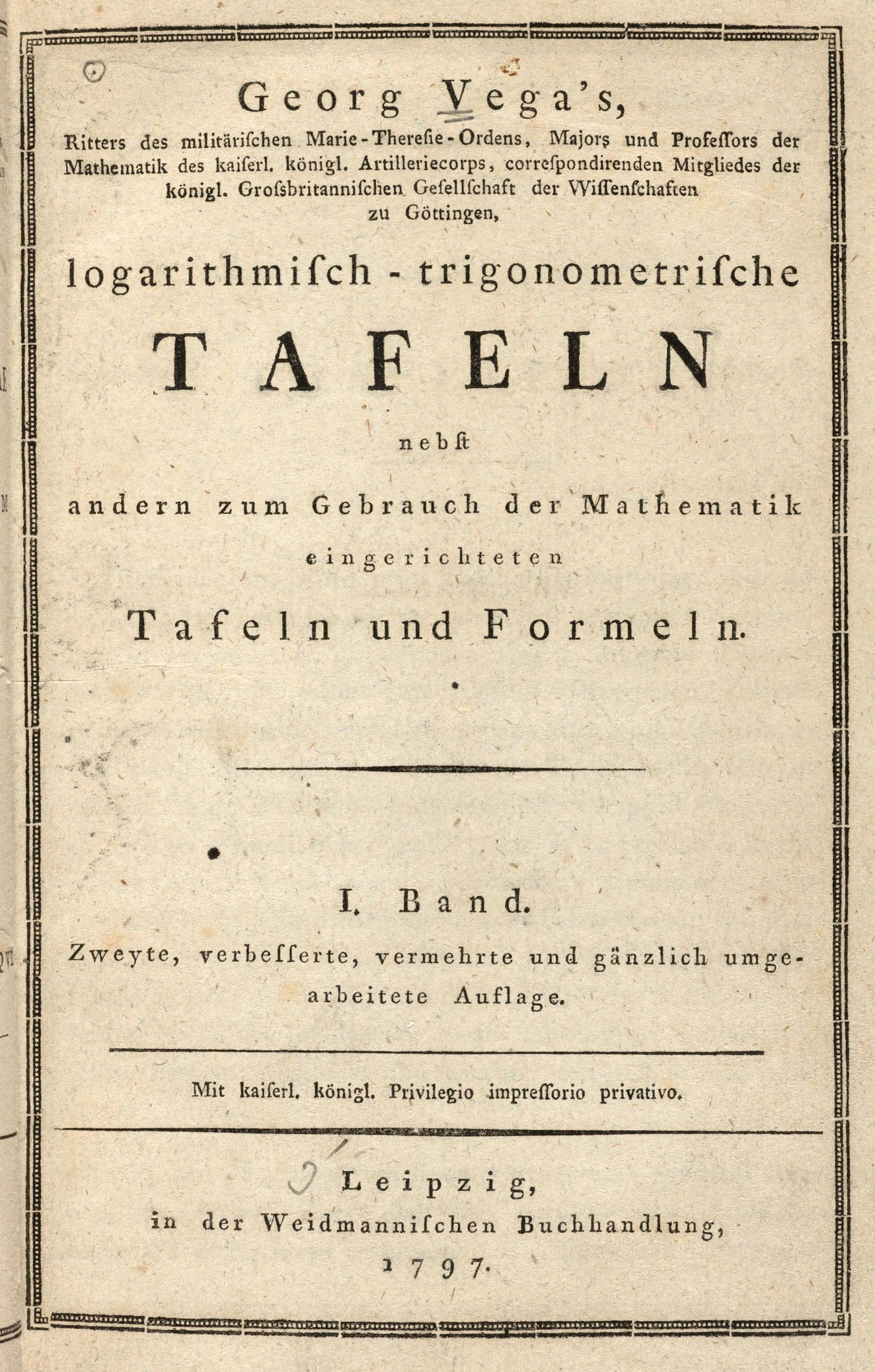 Title page from Logarithmisch-trigonometrische Tafeln nebst andern zum gebrauch der Mathematik eingerichteten Tafeln und Formeln, Leipzig: 1797, by Georg, Freiherr von Vega (1754-1802). Math 837.97*, Houghton Library, Harvard University